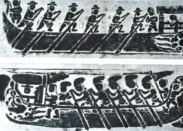 Depiction of medieval Vietnamese vessels' basic configuration